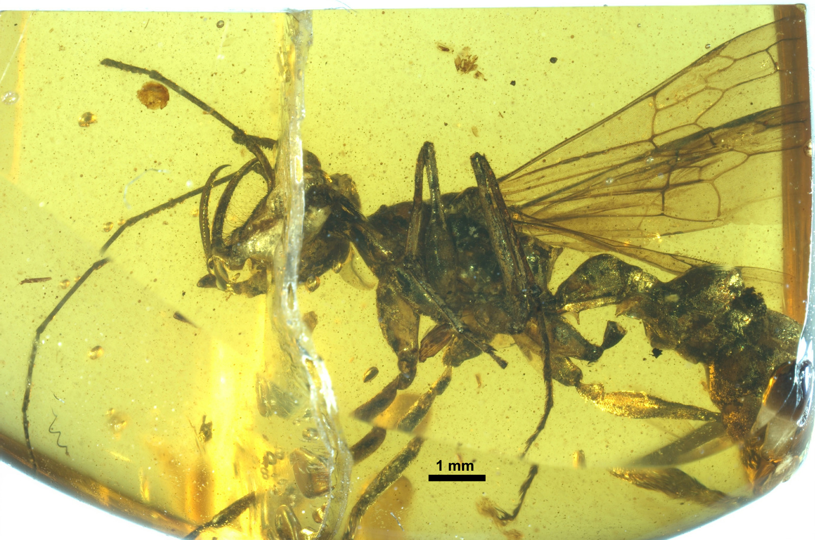 Right hand profile view of the Dhagnathos autokrator holotype queen. Burmese amber, Earliest Cenomanian; Noije Bum Village, near Myitkyina, Kachin State, Myanmar Geology Department and Museum, University of Rennes 1,Rennes, Brittany, France. Specimen IGR.BU-003 Ant web specimen FANTWEB00021